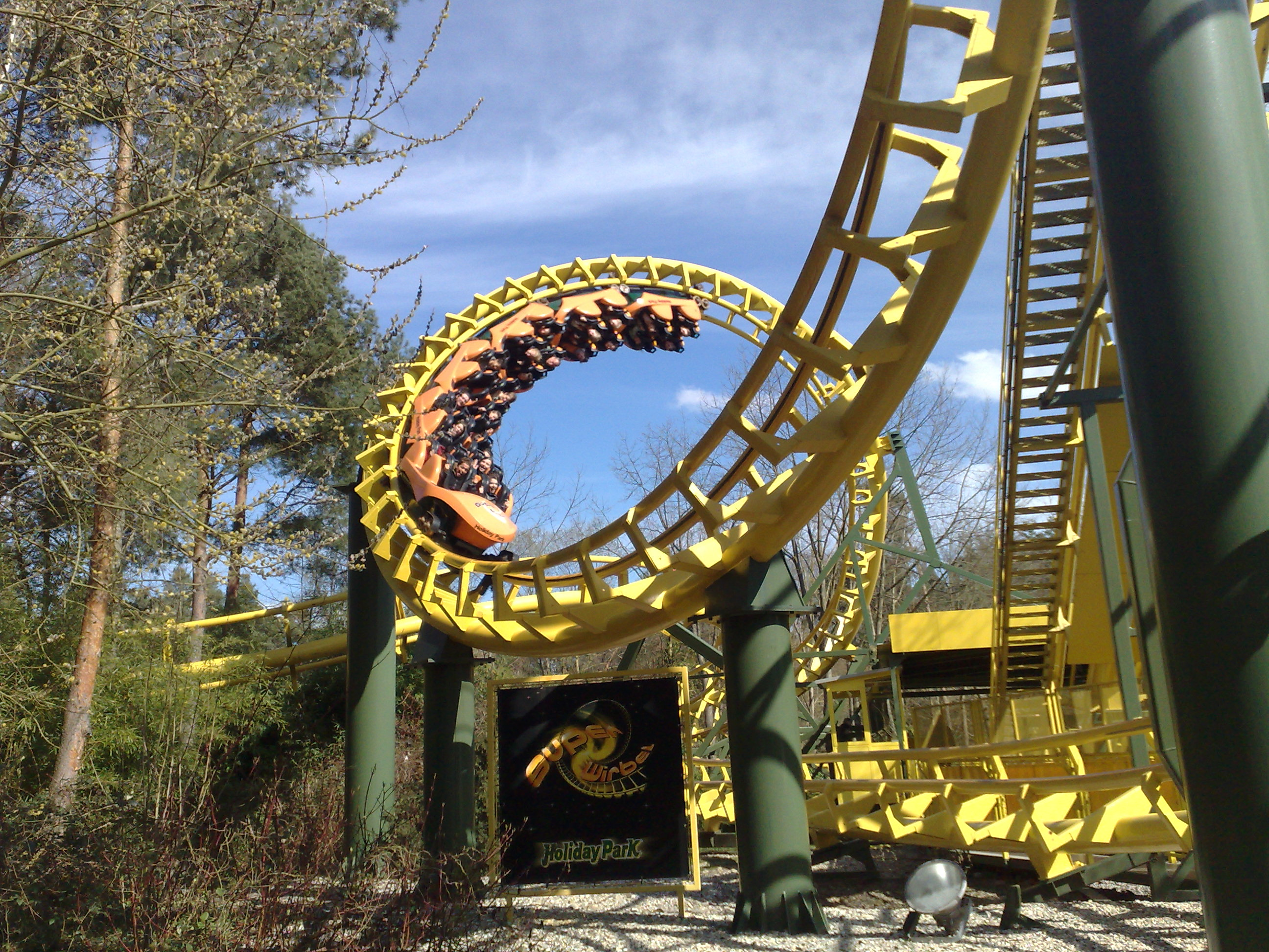 The double corkscrew of the roller coaster Super Wirbel at the German amusement park Holiday Park.